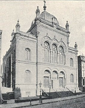 NY Shaaray Tefila 127 West 44th Street Henry Fernbach architect 1868